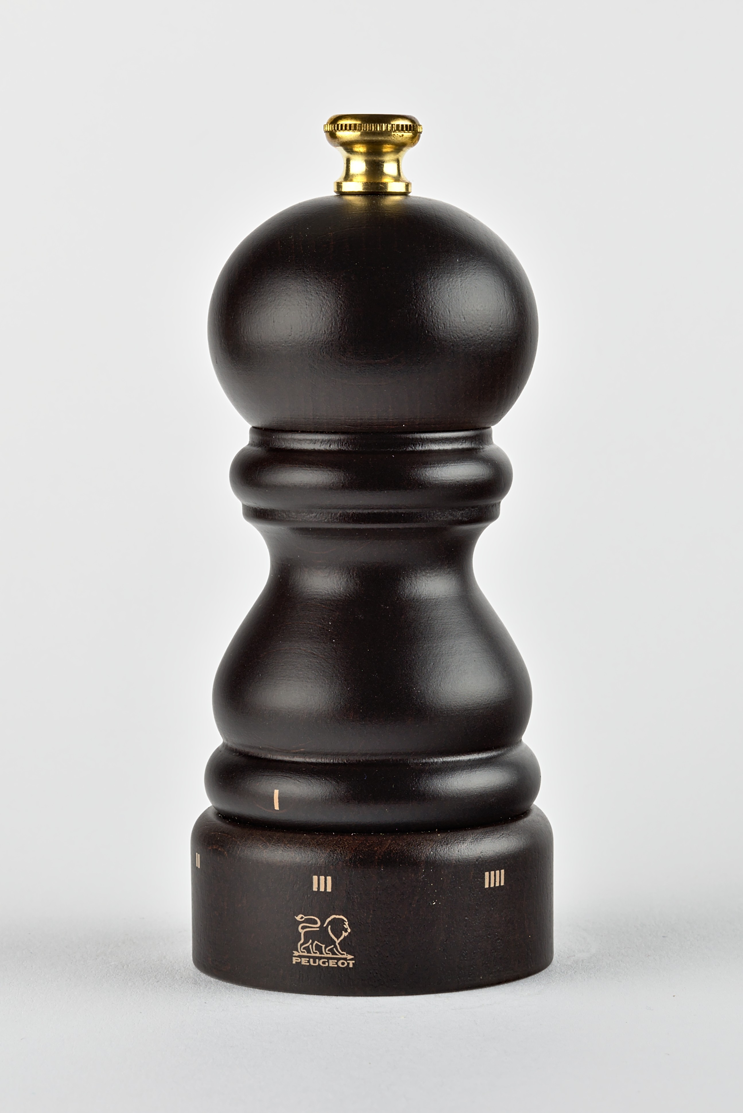 A wooden pepper mill made by Peugeot of France.